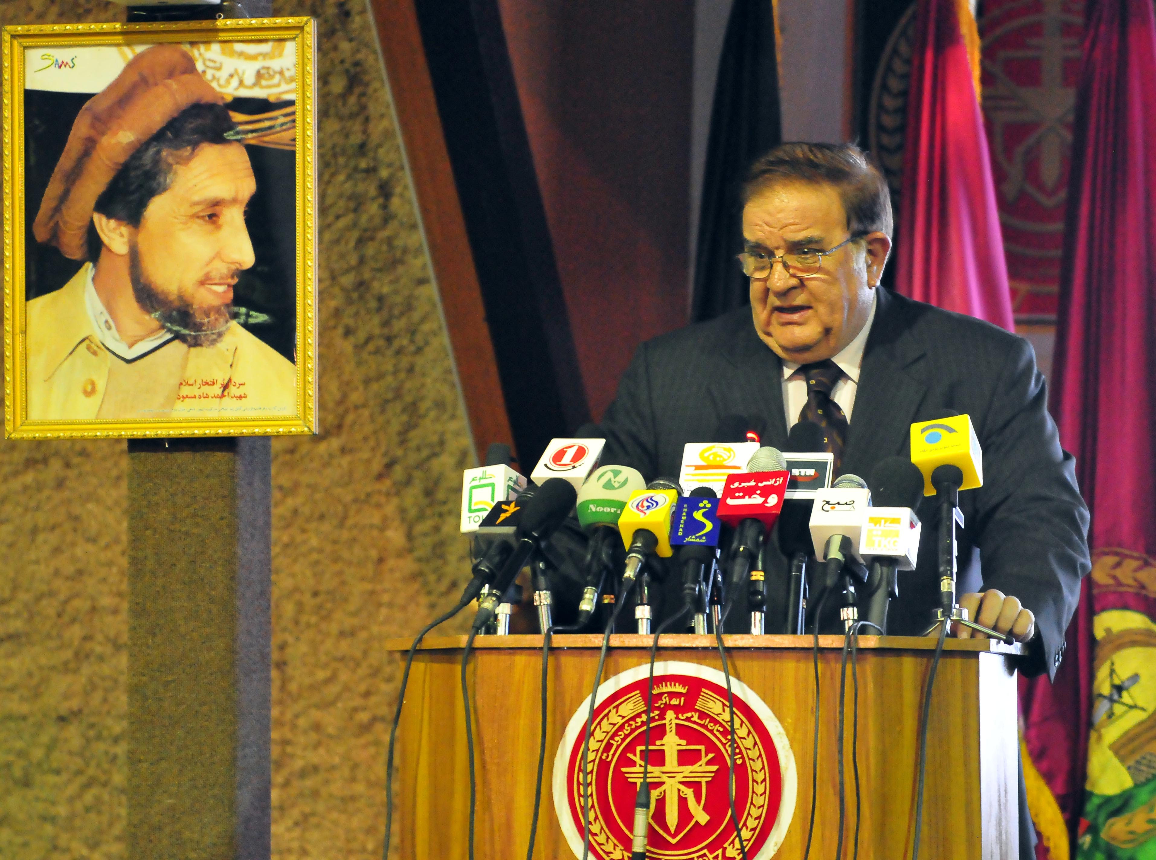 Afghanistan's Minister of Defense Abdul Rahim Wardak speaks at the two day quarterly Corps Commander Conference and Security Shura, held on April 13th and 14th, 2010 at the ANAAC base in Kabul, Afghanistan. The Purpose of the conference was to evaluate the security, stability, and development of Afghanistan. The picture on the wall is of Ahmad Shah Massoud. (US Navy photo by Mass Communication Specialist 2nd Class David Quillen. 100415-N-6031Q-002)